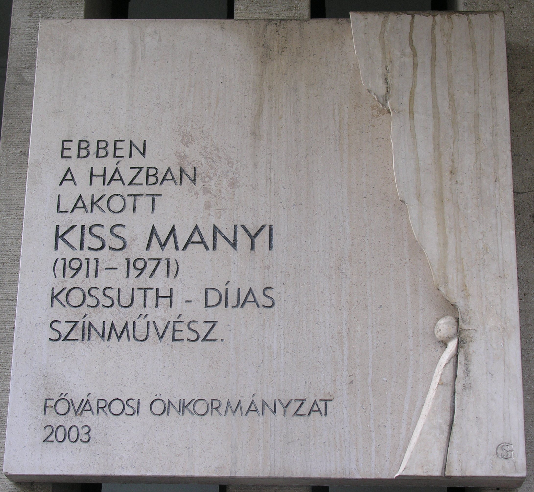 Commemorative plaque of Manyi Kiss in Budapest District II, Szépvölgyi Street No 4/a